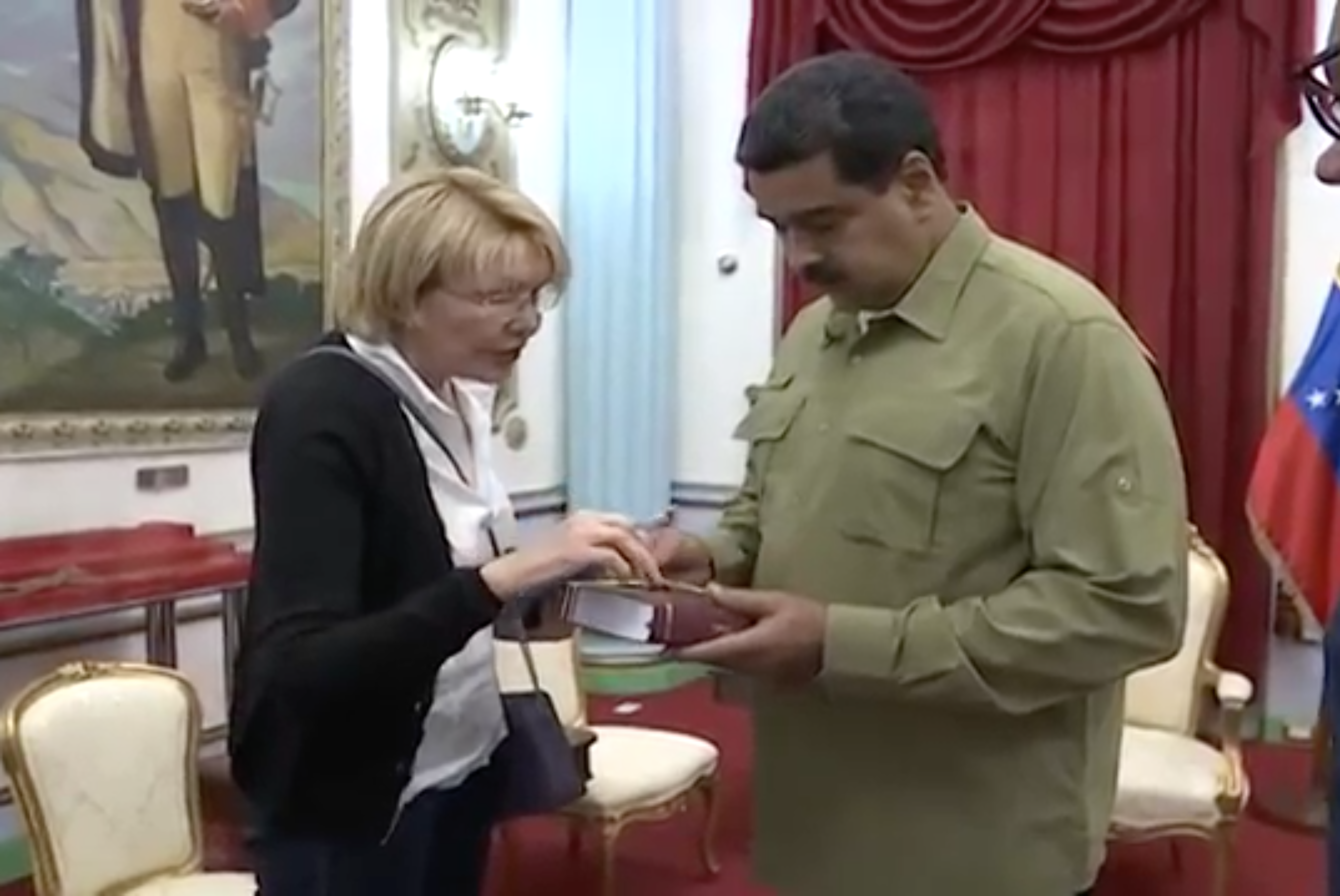 Luisa Ortega Díaz and Nicolás Maduro meeting on 1 April 2017.